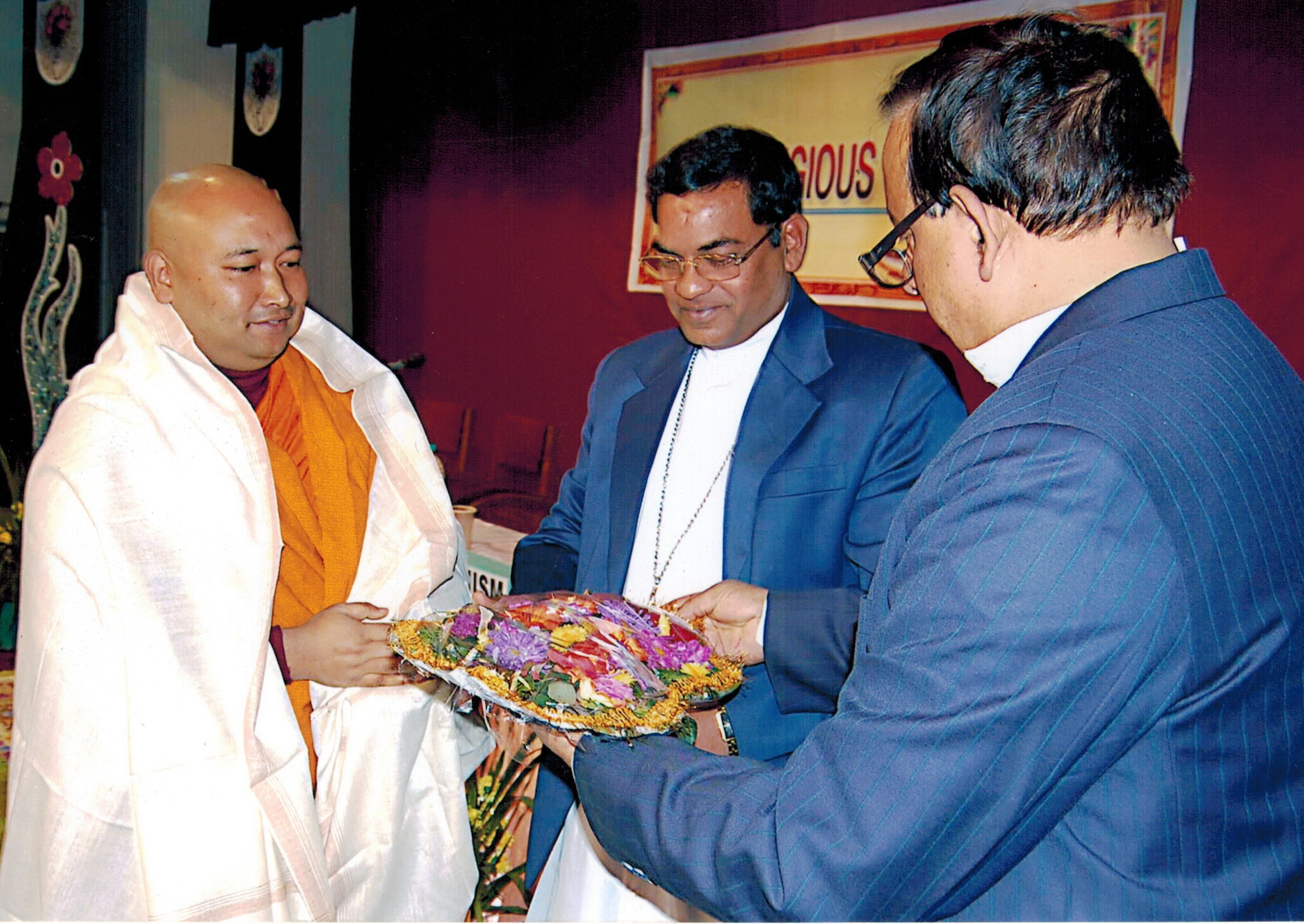 Buddhist monk hosted by Diocese of Bhagalpur